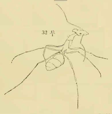 Illustrated dorsal view of a Plagiolepis labilis worker in the type series.